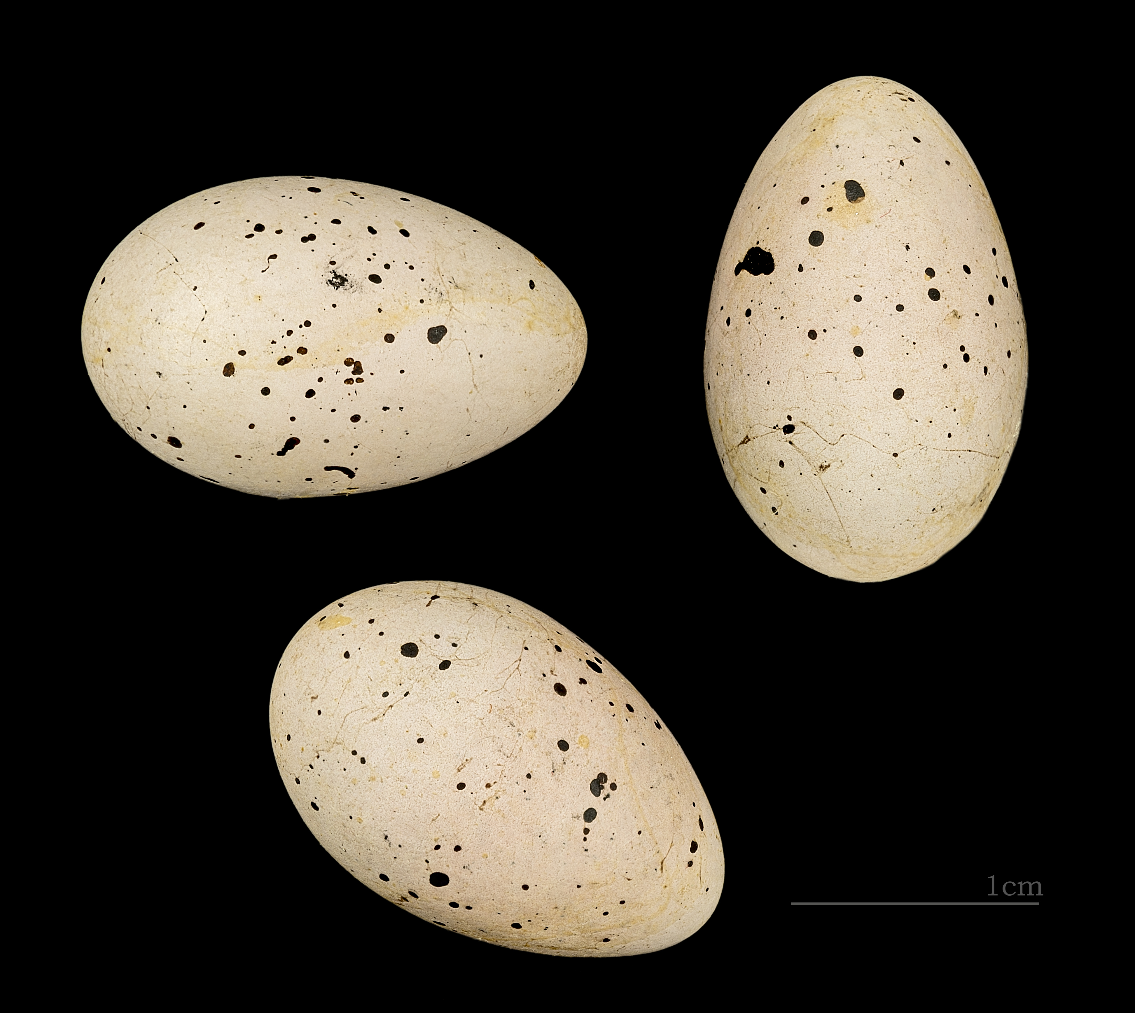 Egg of Eastern Olivaceous Warbler Collection of Jacques Perrin de Brichambaut.